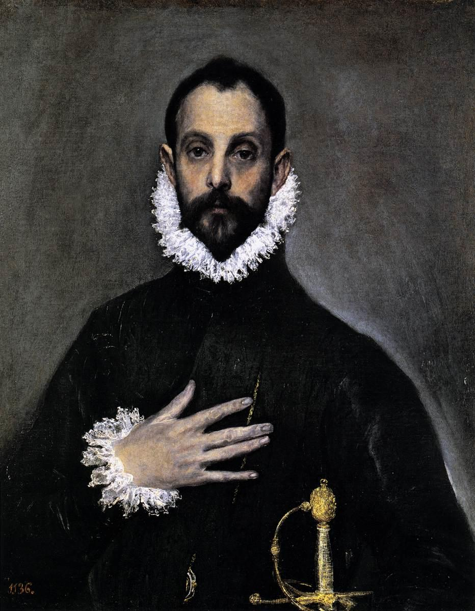 Possible self-portrait of El Greco.[1]